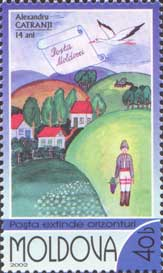 Stamp of Moldova